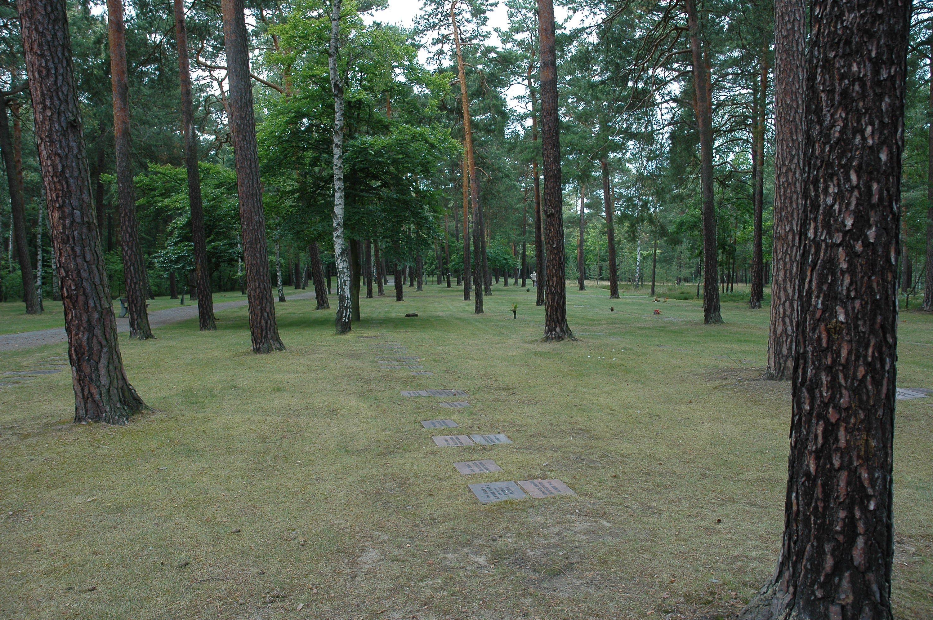 German War Graves at HalbeNorsk bokmål: Den tyske krigskirkegården ved Halbe